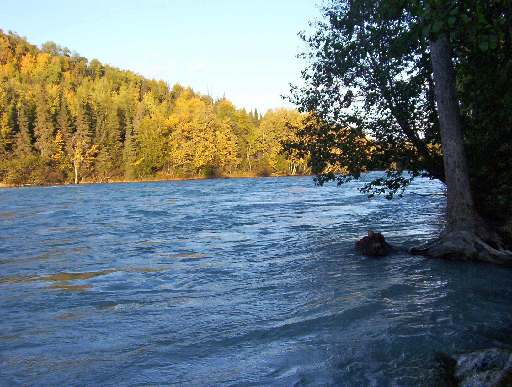 Lower Kasilof River Category:Images of Alaska